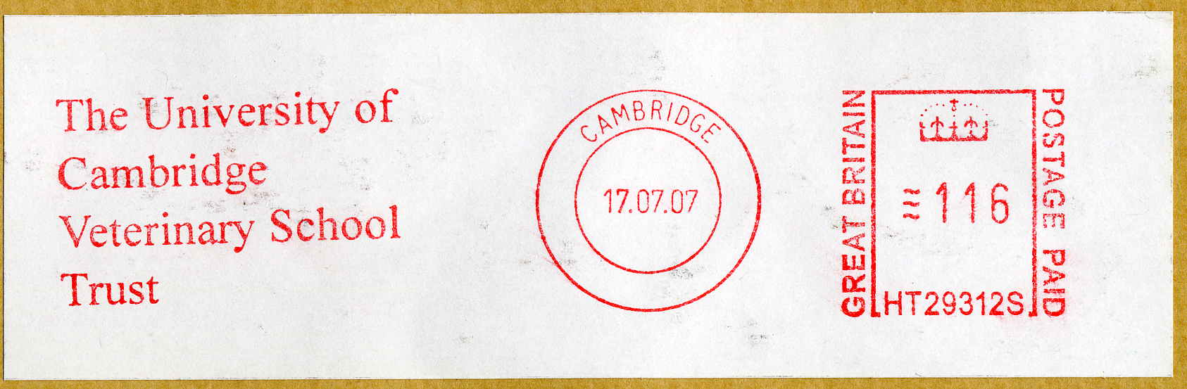 A UK postage meter marking. Detail. 2007.